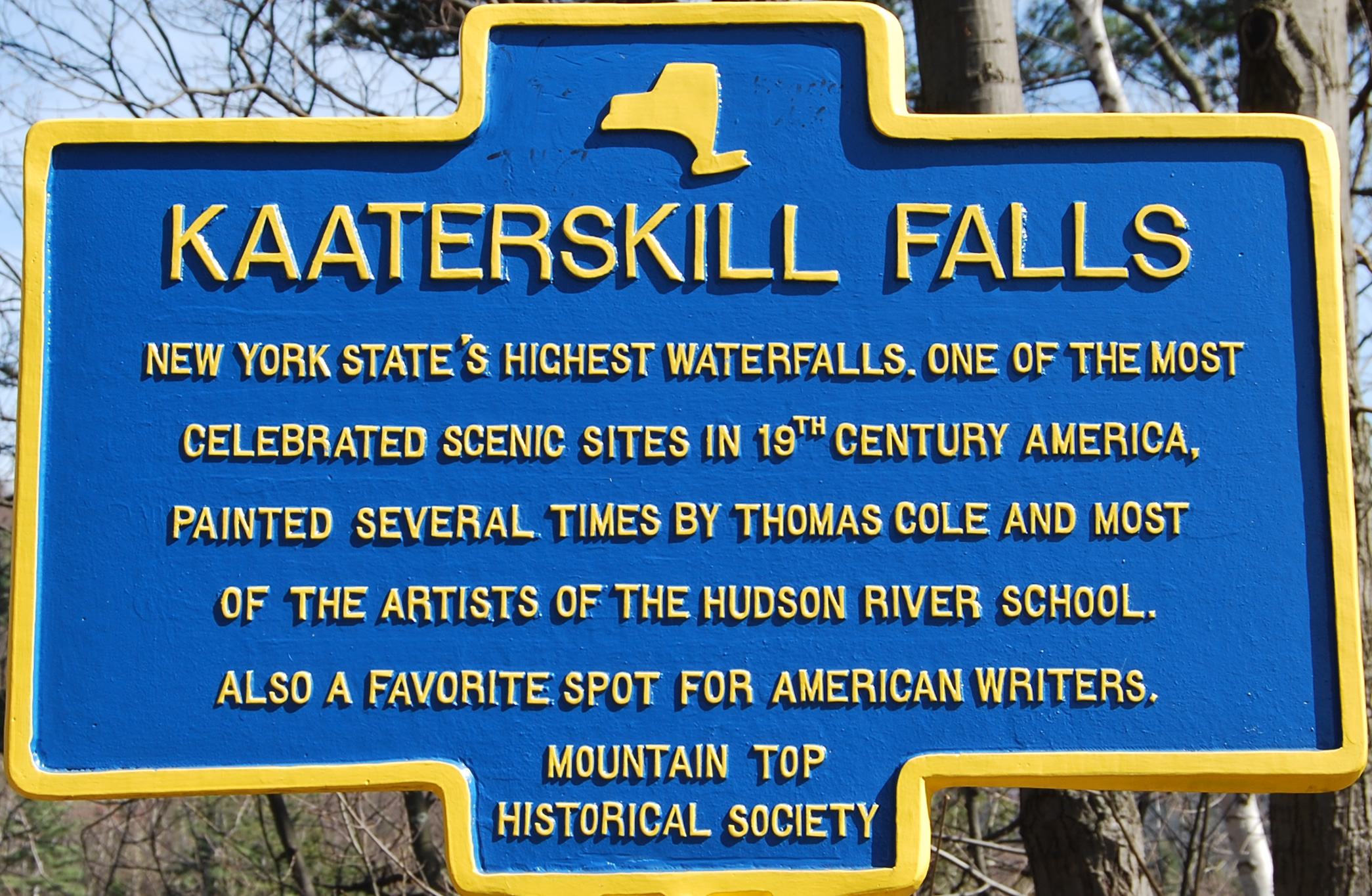 Kaaterskill Falls Sign in Palenville, Greene County, New York. In the Catskill mountains, it is New York's highest waterfall.